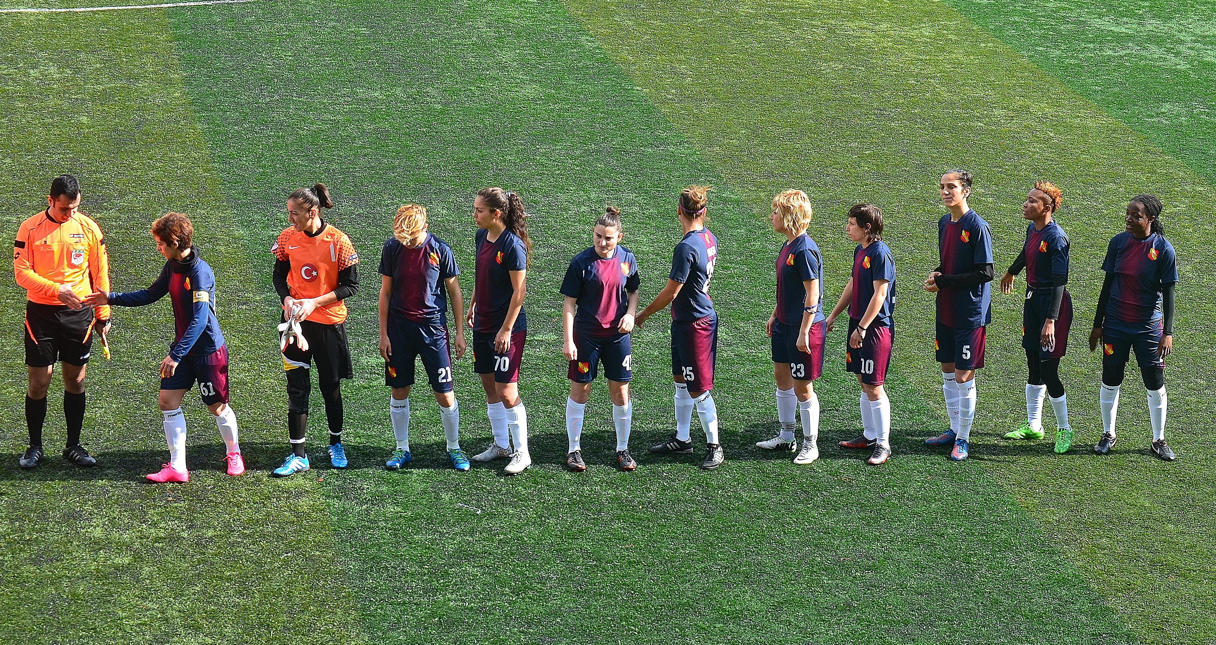 Trabzon İdmanocağı (women) squad in the away match of 2015-16 Tırkish First League against Kireçburnu Spor